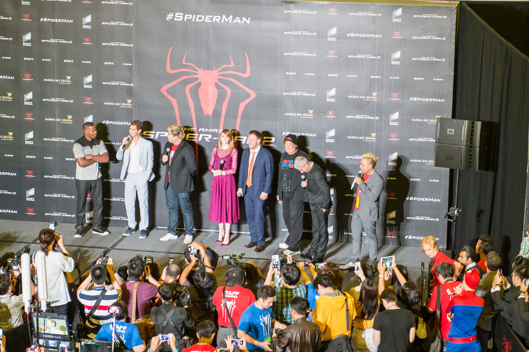 Cast at the launch of the 2014 event in Singapore, Marina Bay